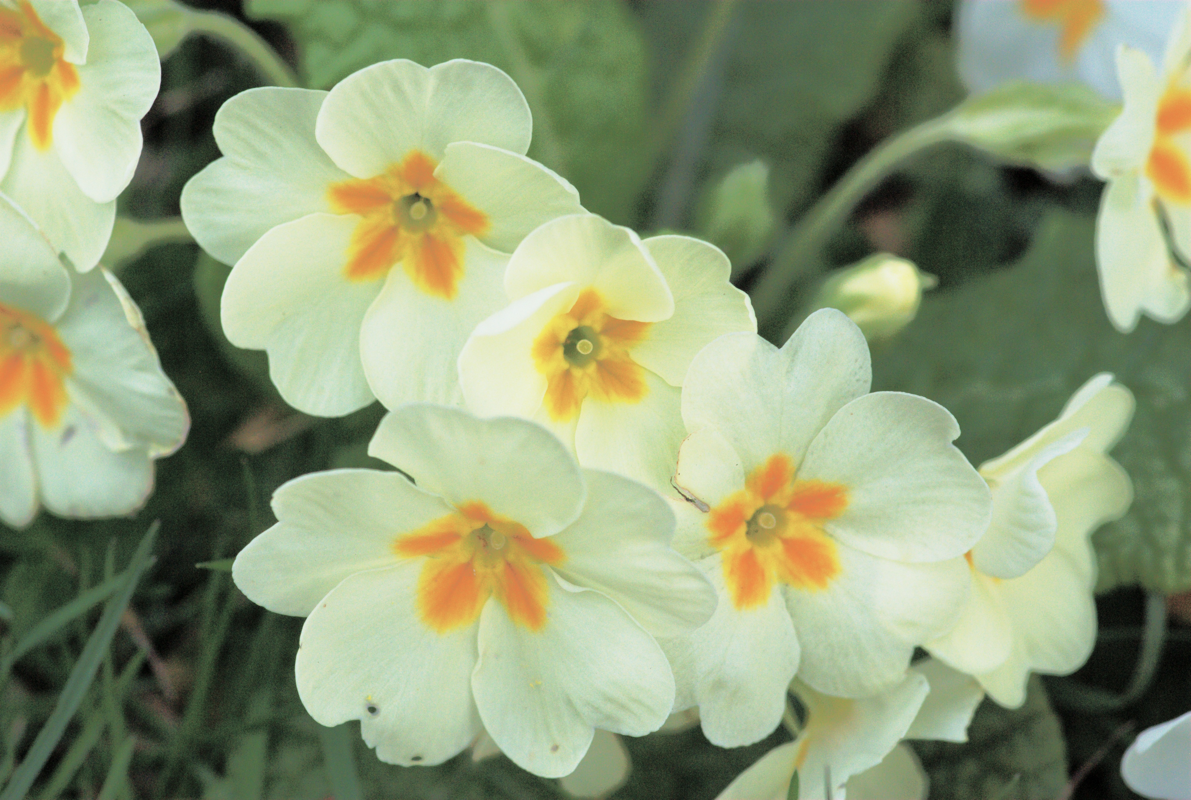 Primula vulgaris